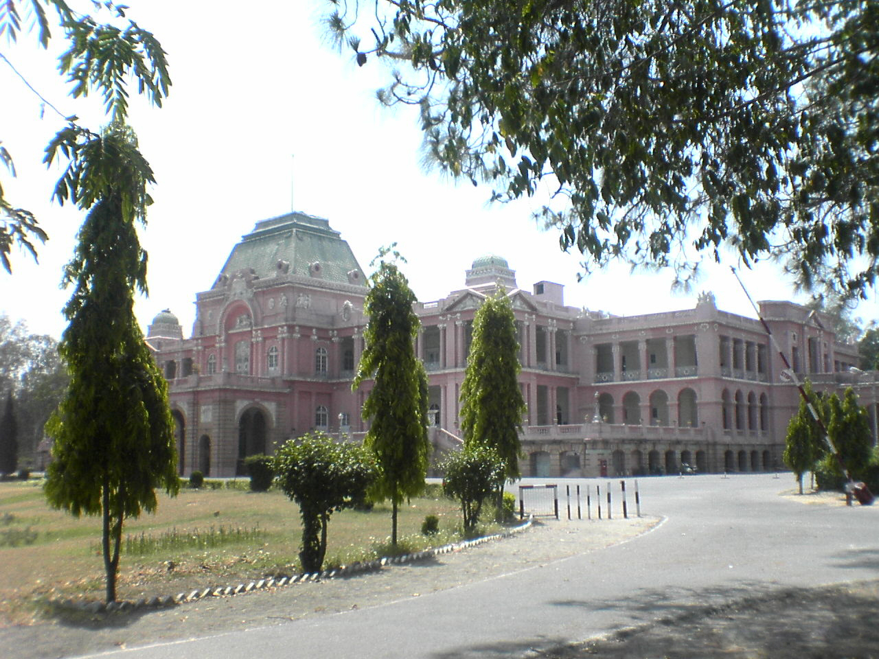 Sainik School, Kapurthala, Punjab (PB), India